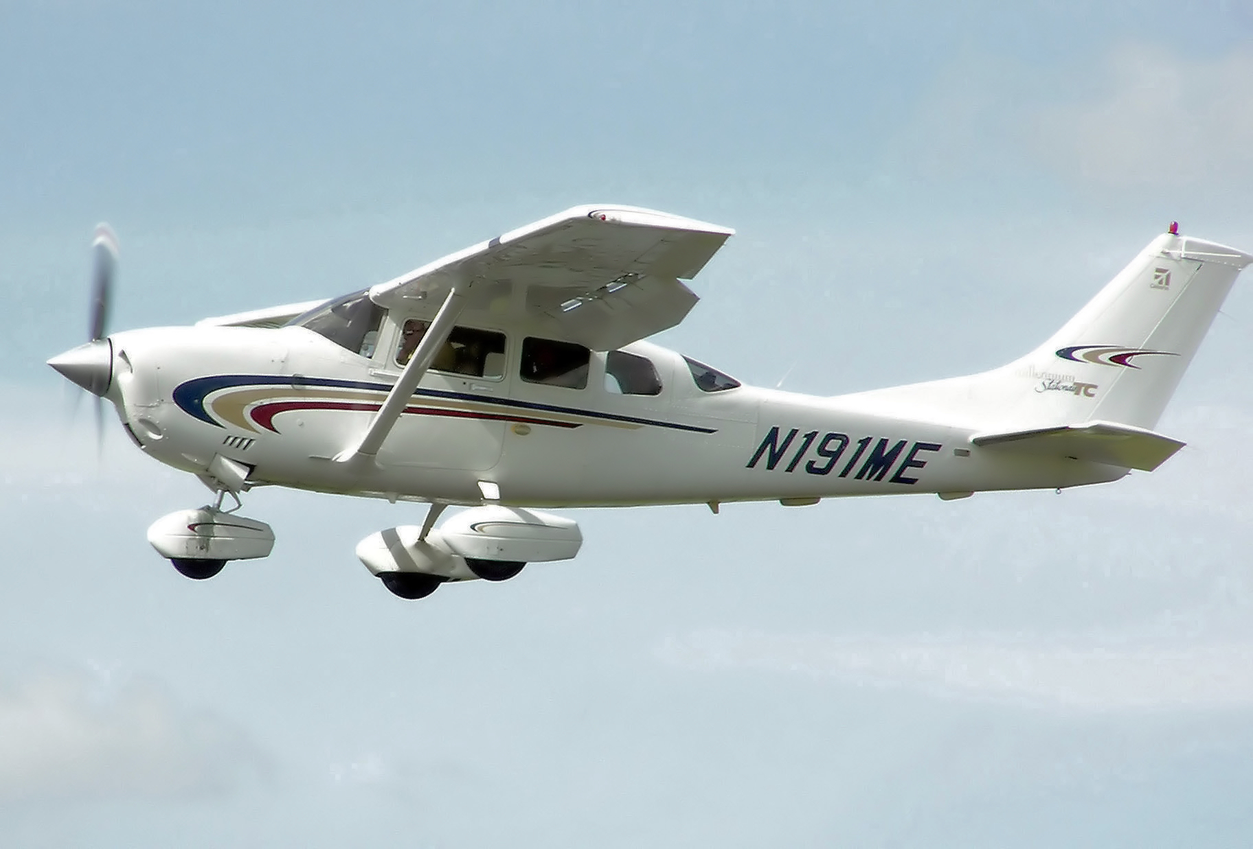 Cessna 206H Stationair 2 (US registration N191ME, built in the year 2000) at Kemble Airfield, Gloucestershire, England. Photographed by Adrian Pingstone in July 2005 and released to the public domain.